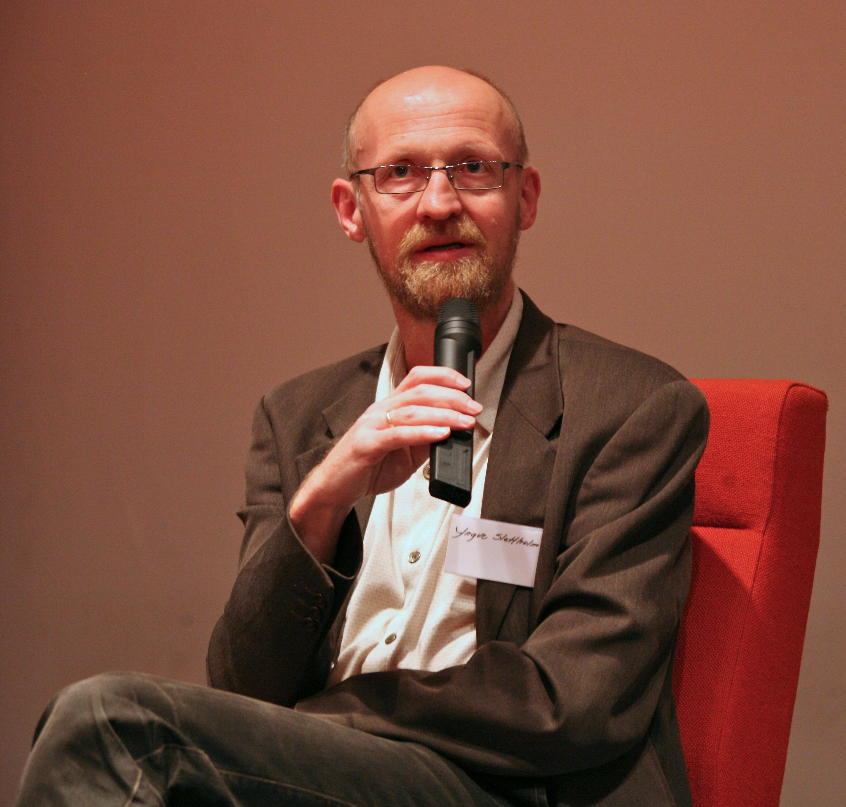 Wikipedia Academy, Yngve Slettholm